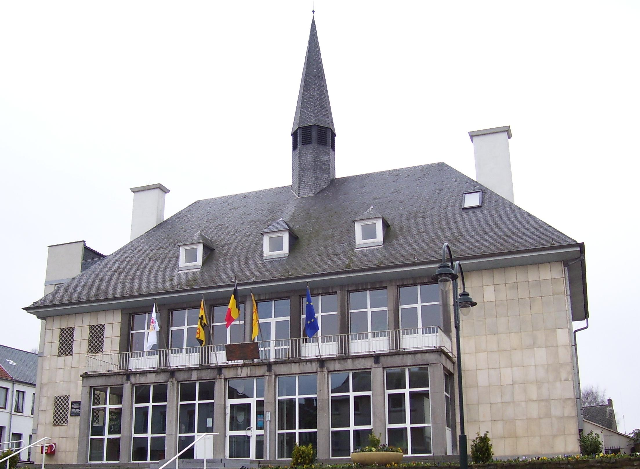 Maison Communale (municipality) of Perwez, Belgium